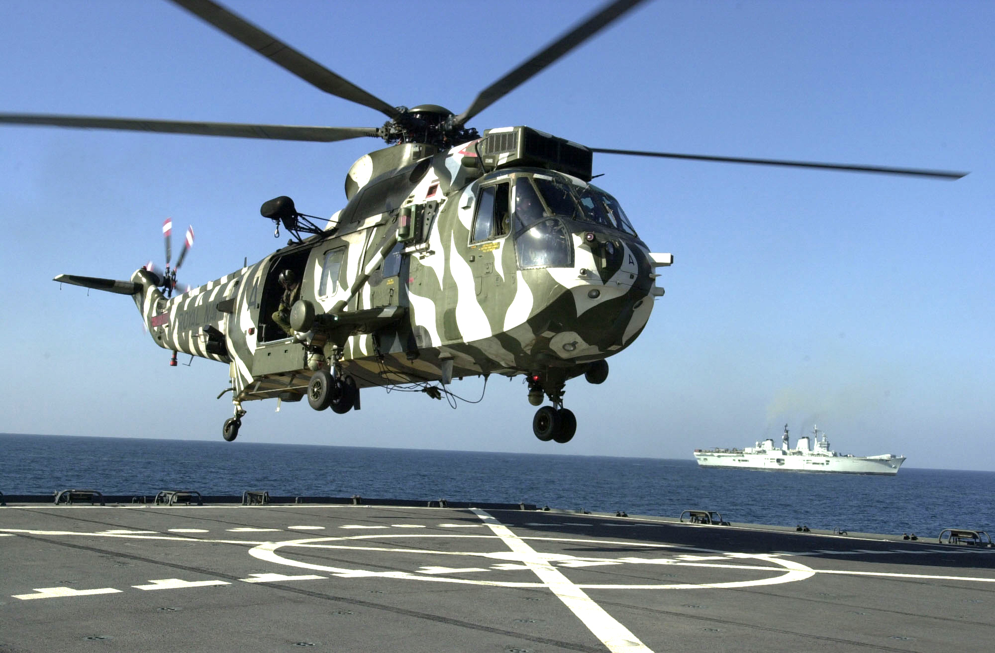 A Royal Navy Westland Sea King HC.4 helicopter, assigned to the Royal Navy aircraft carrier HMS Illustrious (R06), prepares to land aboard the U.S. Military Sealift Command (MSC) ship USNS Pecos (T-AO-197) during a joint training evolution with members of the assigned to Commando Unit 40, Company D, Royal Marines, and U.S. Navy SEAL (Sea Air Land) team members on 23 Feb 2002. HMS Illustrious was deployed as in support of Operation Enduring Freedom.